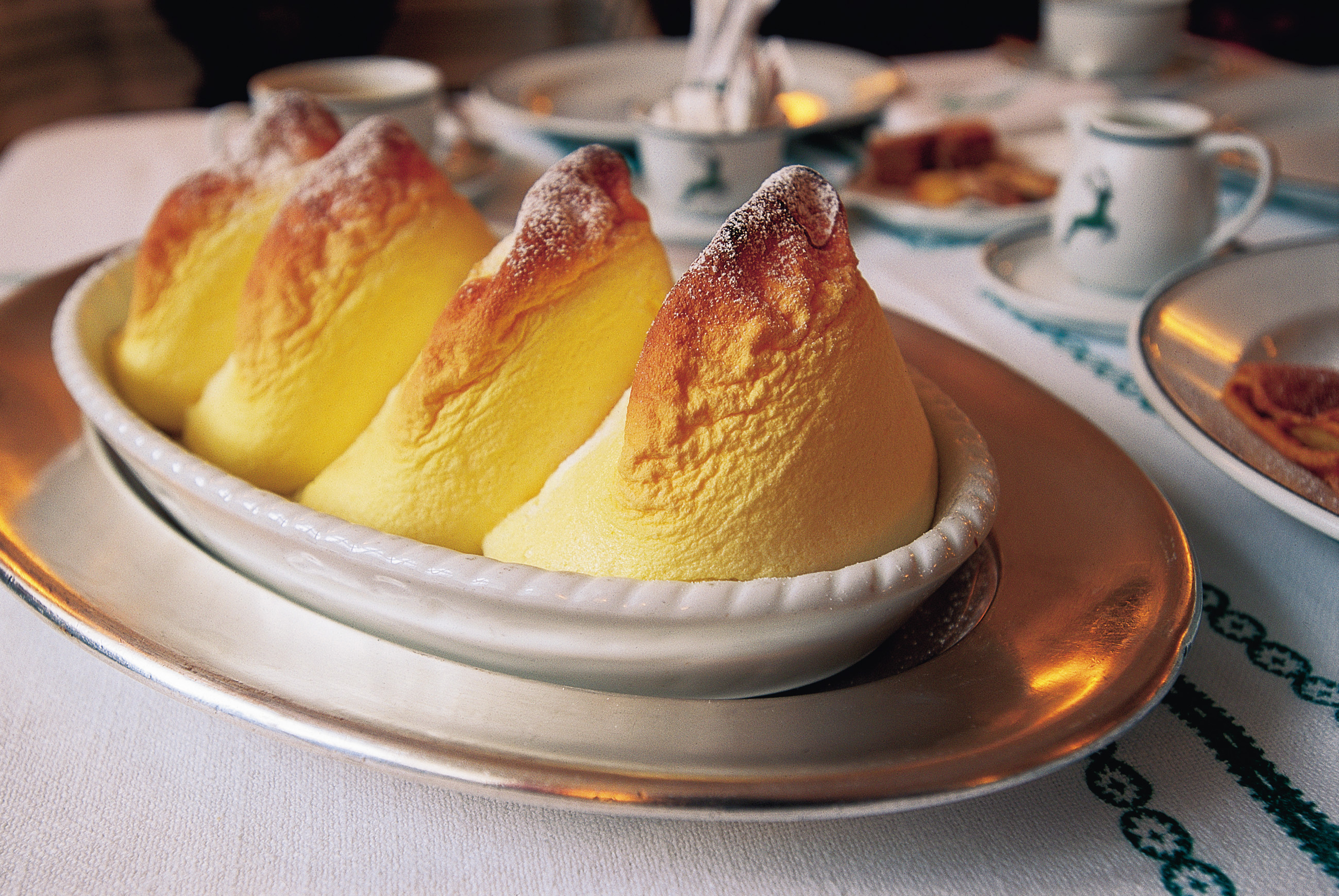 Salzburger Nockerln, as served in restaurant "Goldener Hirsch" in Salzburg